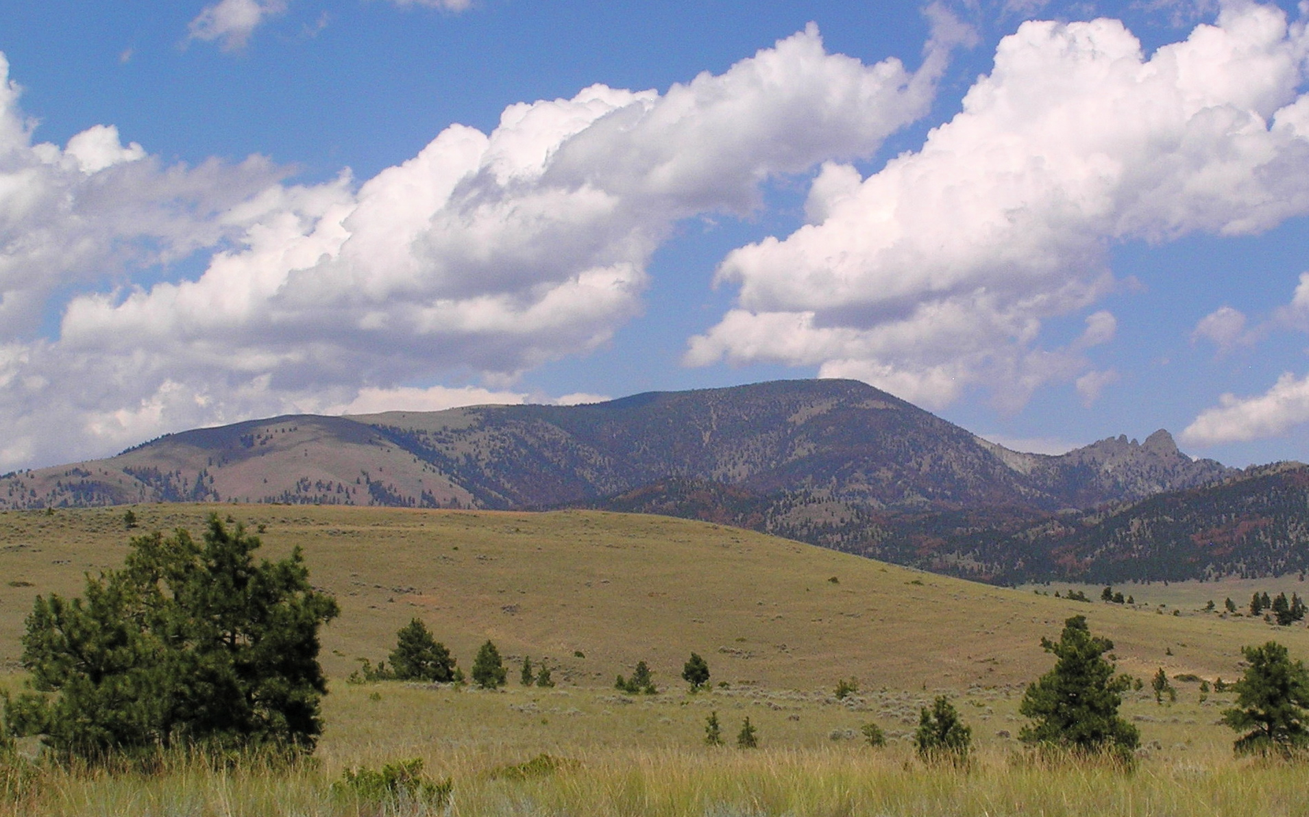 The iconic "Sleeping Giant" mountain formation north of Helena, Montana in Lewis and Clark County. Taken from Gates of the Mountains Exit just off I-15.